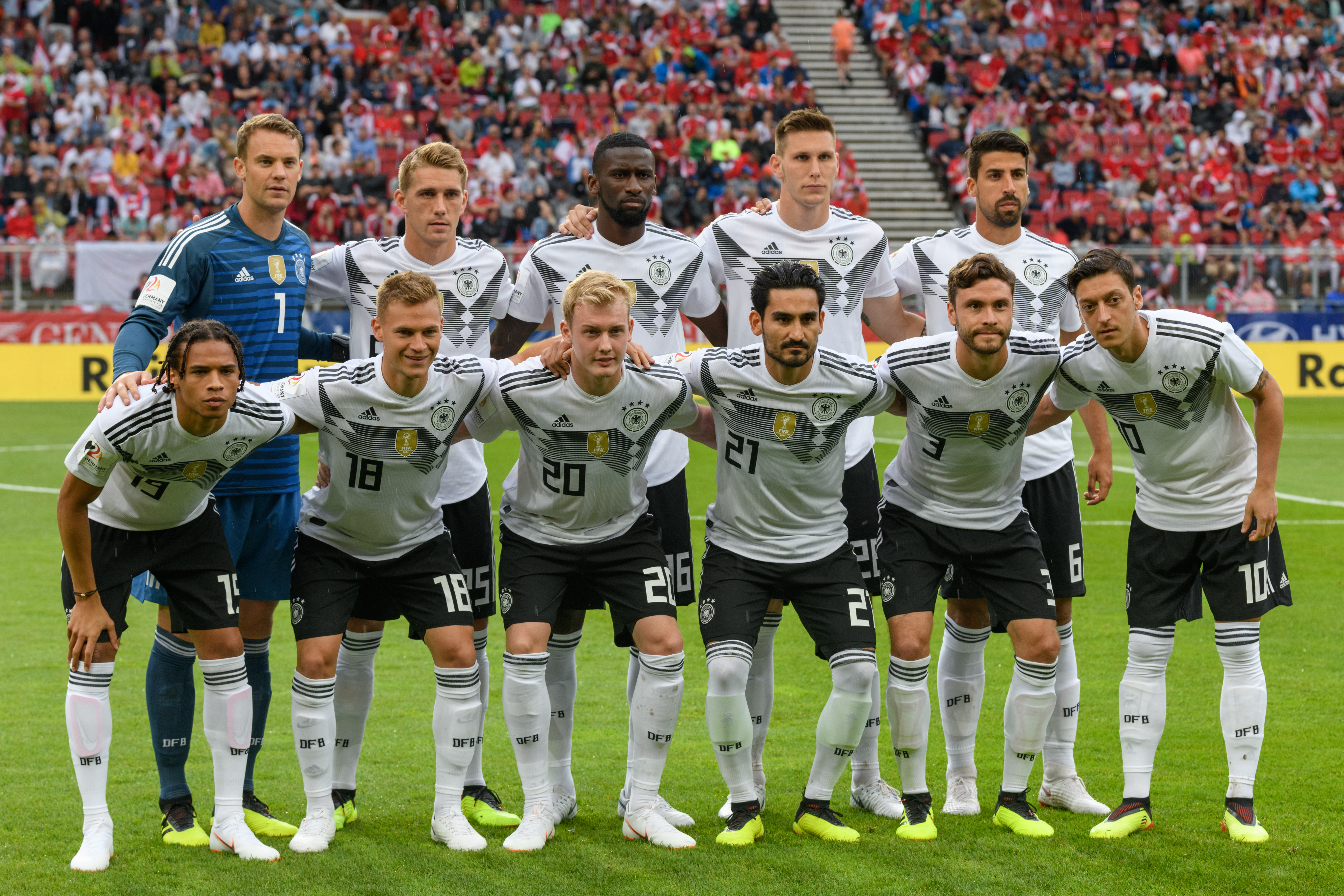 FIFA Friendly Match Austria vs. Germany 2018/06/02 in Klagenfurt/Woerthersee. Picture shows (rear row) Manuel Neuer (GER), Nils Petersen (GER), Antonio Rüdiger (GER), Niklas Süle (GER), Sami Khedira (GER), (front row) Leroy Sané (GER), Joshua Kimmich (GER), Julian Brandt (GER), Ilkay Gündogan (GER), Jonas Hector (GER), Mesut Özil (GER).